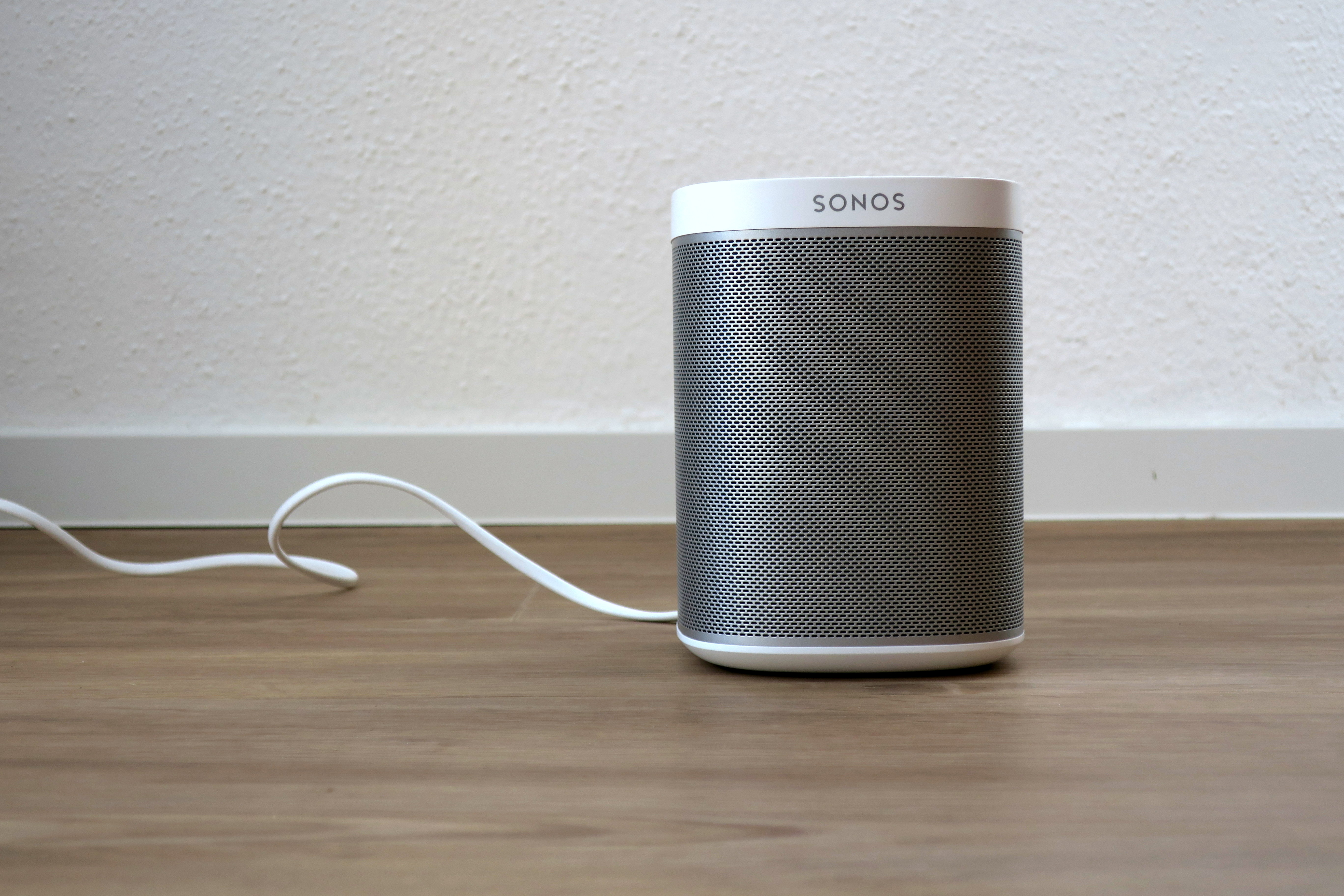 PLAY:1 is a speaker component for the wireless music system by the manufacturer "Sonos".